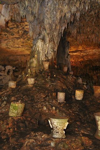 This image shows artifacts (primarily incense burners carved in the image of the goggle-eyed rain deity Tlaloc) surrounding the great limestone column of Balankanche, stretching from floor to ceiling and very much resembling the ancient Maya conception of the World Tree (Wacah Chan). In ancient Maya belief systems, a cave is a sacred place. Caves offer a portal to Xibalba, the Maya underworld, where the spirits of the valiant dead tangle with supernatural beings, and the roots of the great World Tree are found. From here, these roots extend through the earthly realms of the forests up to the celestial heavens of the mountains. Caves are seen as the mouths of the Witz mountain spirits, and water is seen as having its origin deep within them, issuing forth as rain or rivers. The limestone karst landscape of the Yucatan is possessed of a great many caves, and most Maya cities have several which were used as elite temples for ceremonial purposes, mainly those involved in the invocation of water and crop fertility (corn is also seen as having originated in Xibalba).